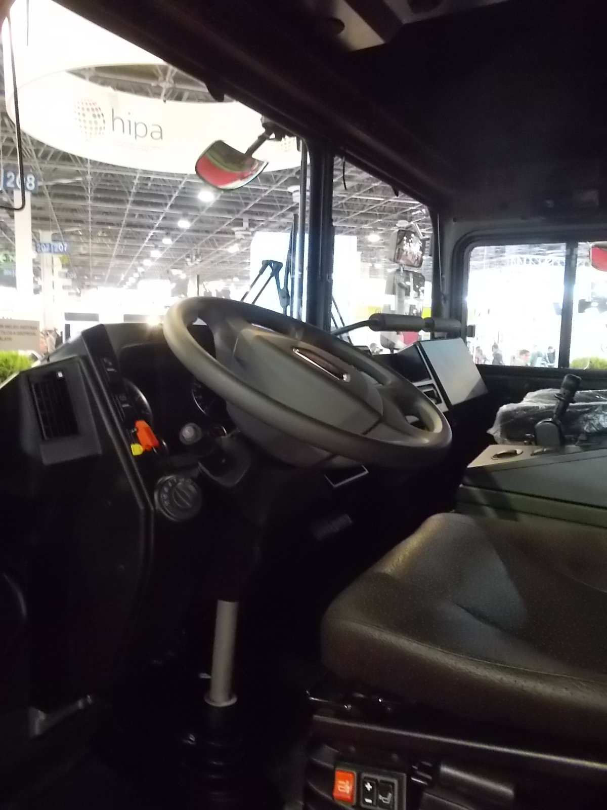 Rába H14.240AEL-112 military off-road truck at Hungexpo, Automotive exhibition, 2017 Hungary Hall A. - Albertirsai út, Ligettelek neighborhood, Budapest District X.